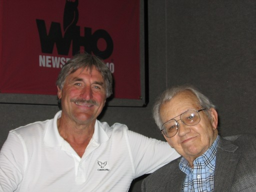 Sports broadcasters Ed Podolak and Jim Zabel at the WHO Radio studios in Des Moines, Iowa on September 20, 2009